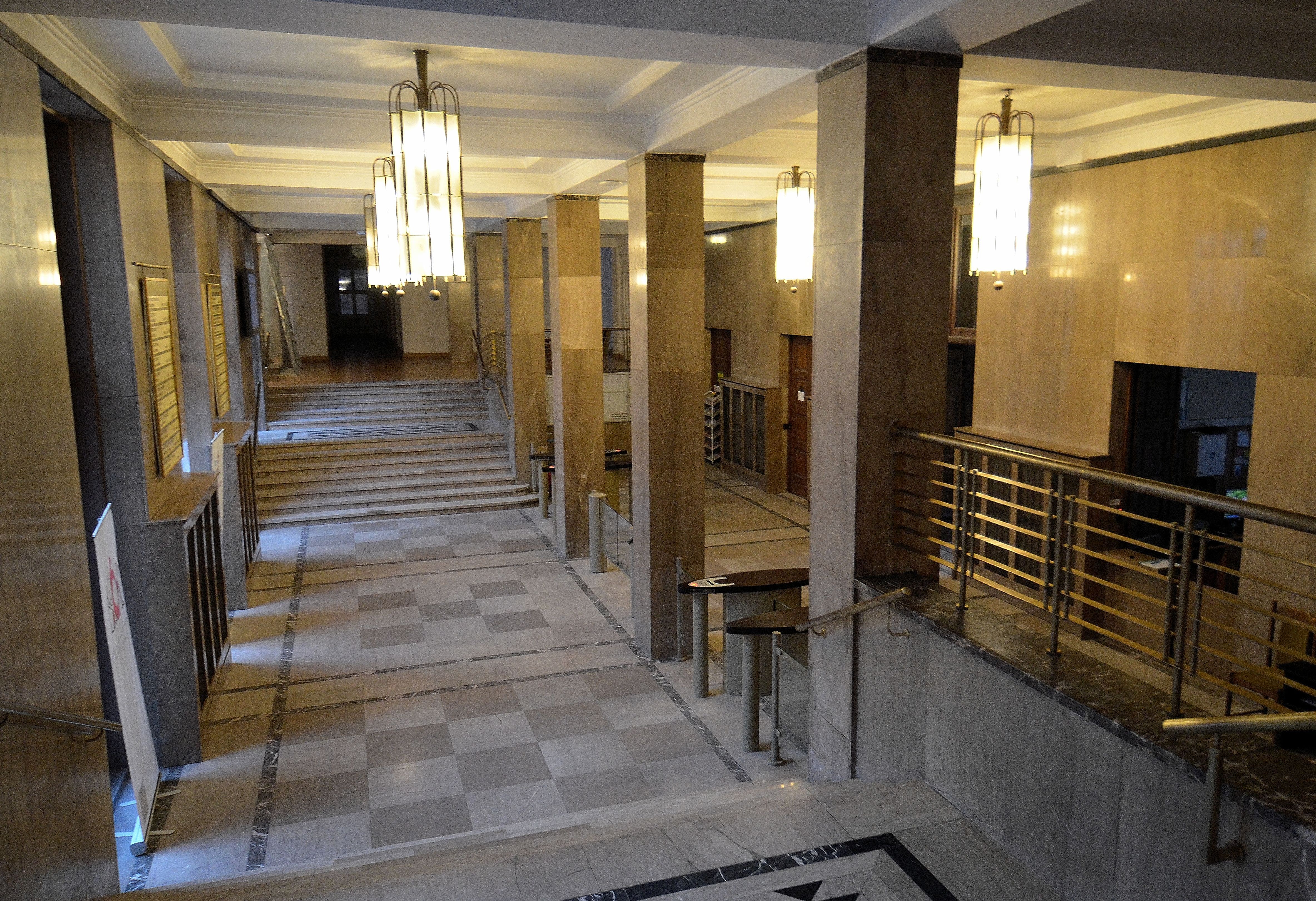 Main hall of the Ministry of National Education at 25 Jana Ch. Szucha Avenue in Warsaw